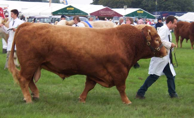 A South Devon bull at the Romsey Show 2005